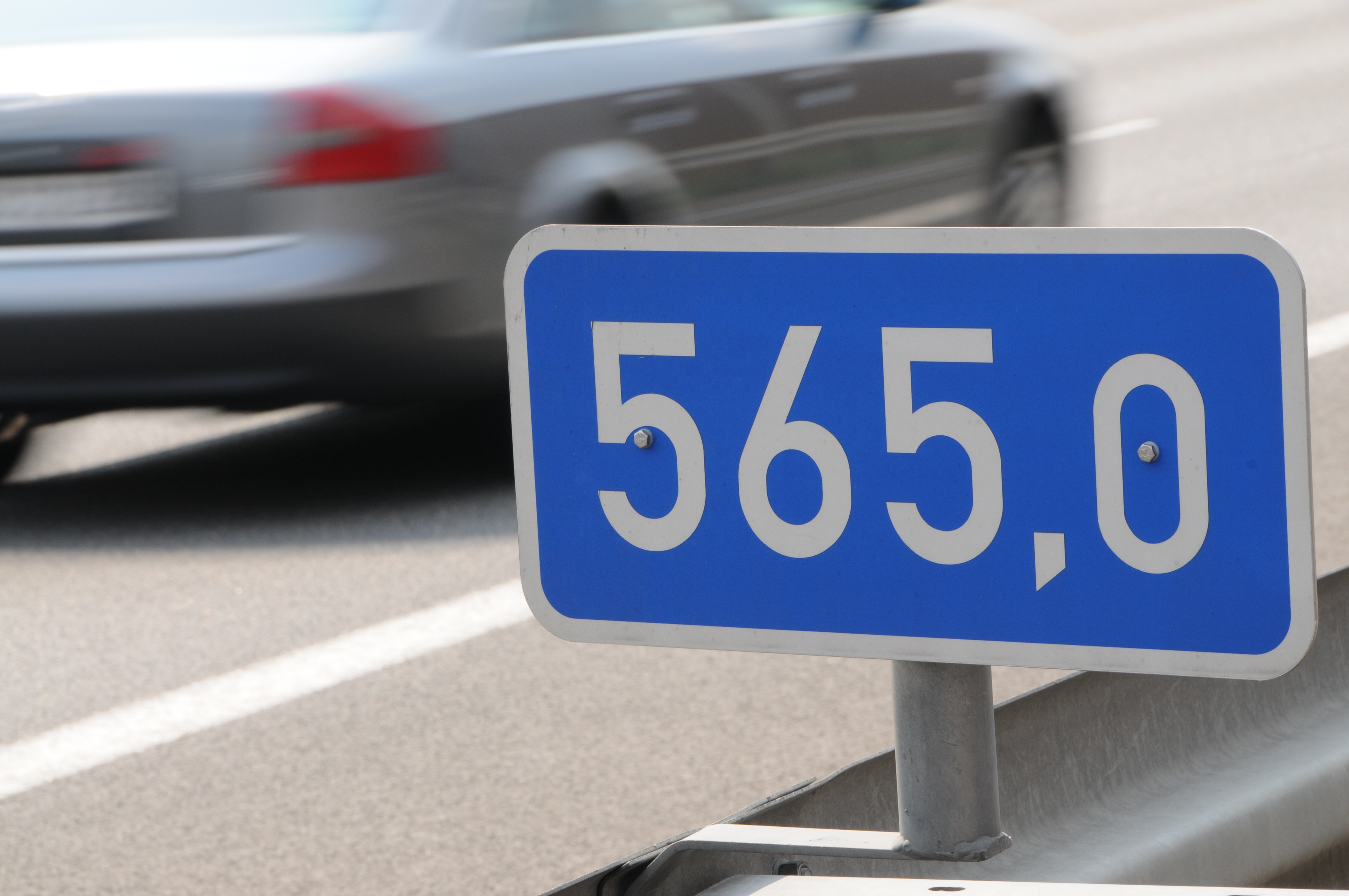 Road kilometer sign German federal motorway "Autobahn 6", km 565.0 near Mannheim